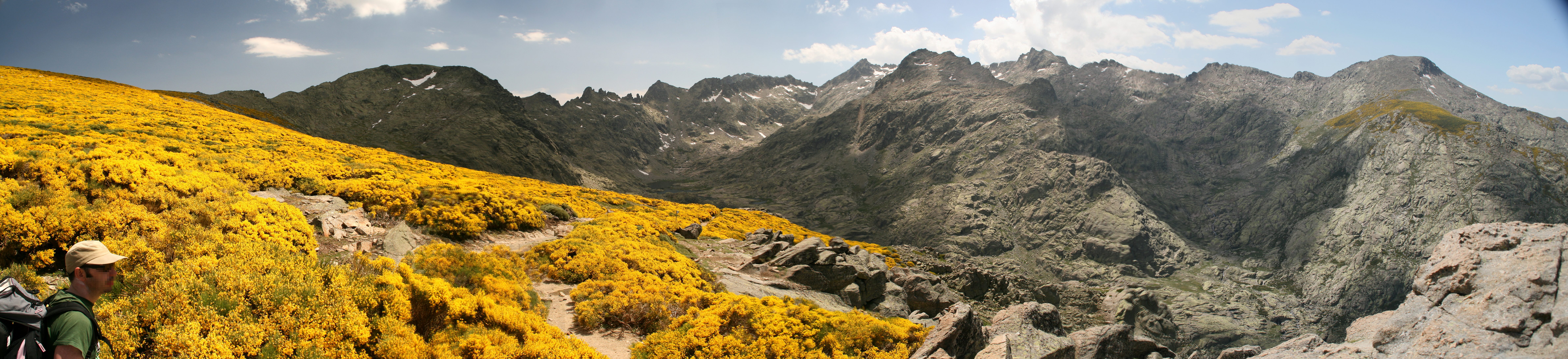 Circo de Gredos is a glaciar circus over plutonic rocks. It is in the Sierra of Gredos in the centre of the Spain.